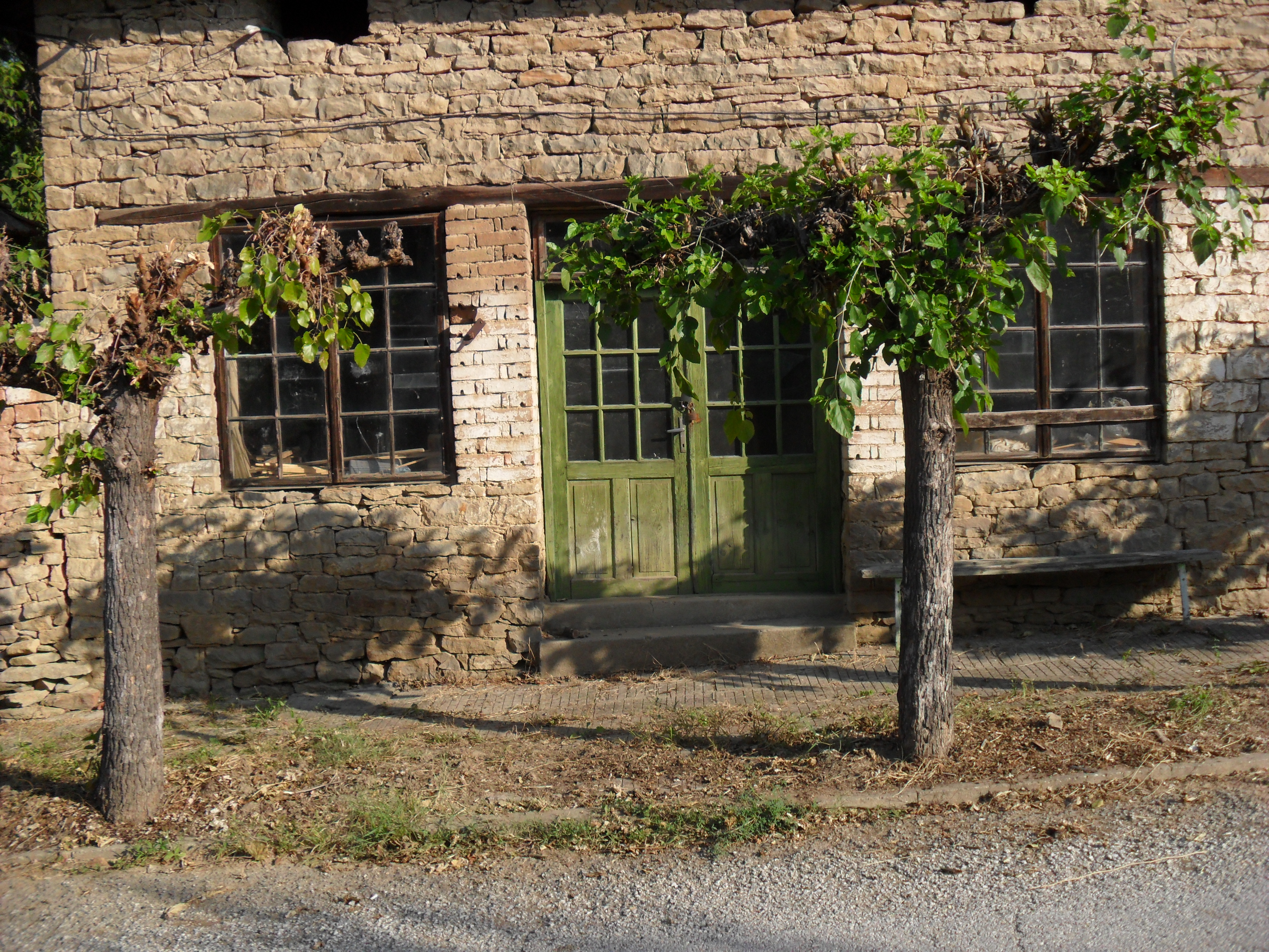 Old workshop in vishovgrad Bulgaria